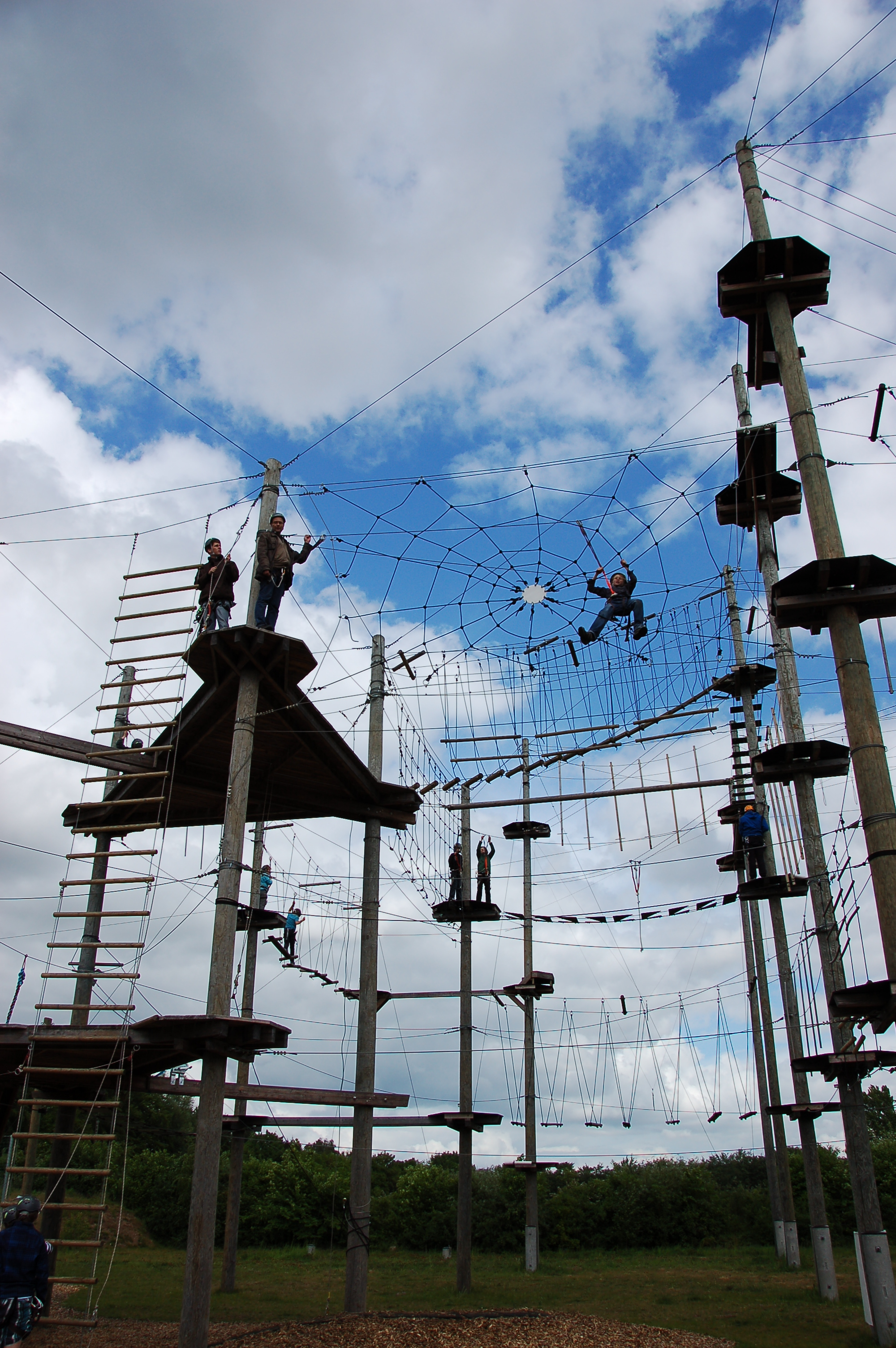 Ropes Course from SC Gut Heil Neumünster von 1881 e.V